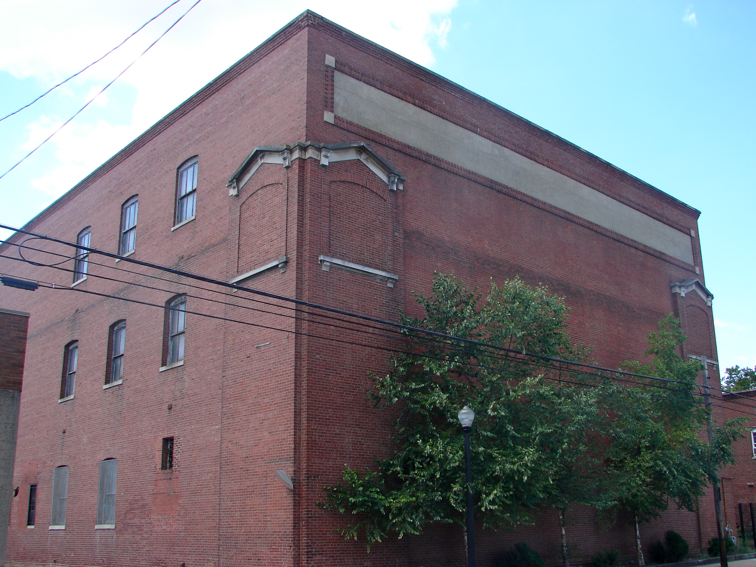 American/Consolidated Tobacco Companies on the NRHP since September 21, 1990. includes 2 buildings, this is the larger building at 820 North Prince. At 820–830 North Prince Street, in the Stadium District of Lancaster, Pennsylvania. Part of the NRHP multiple submission for tobacco industry buildings in Lancaster